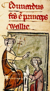 Edward I creating his son, Edward of Caernarvon (the later King Edward II), prince of Wales, 1301. Text reads "Eduuardus factus est princeps Wallie" (Edward is made prince of Wales). (British Library, MS Cotton Nero.D.II. fol. 191v)